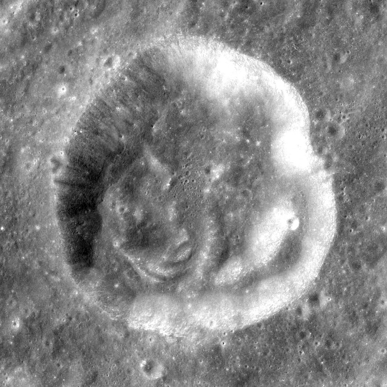 Crater Keeler S on the Moon.